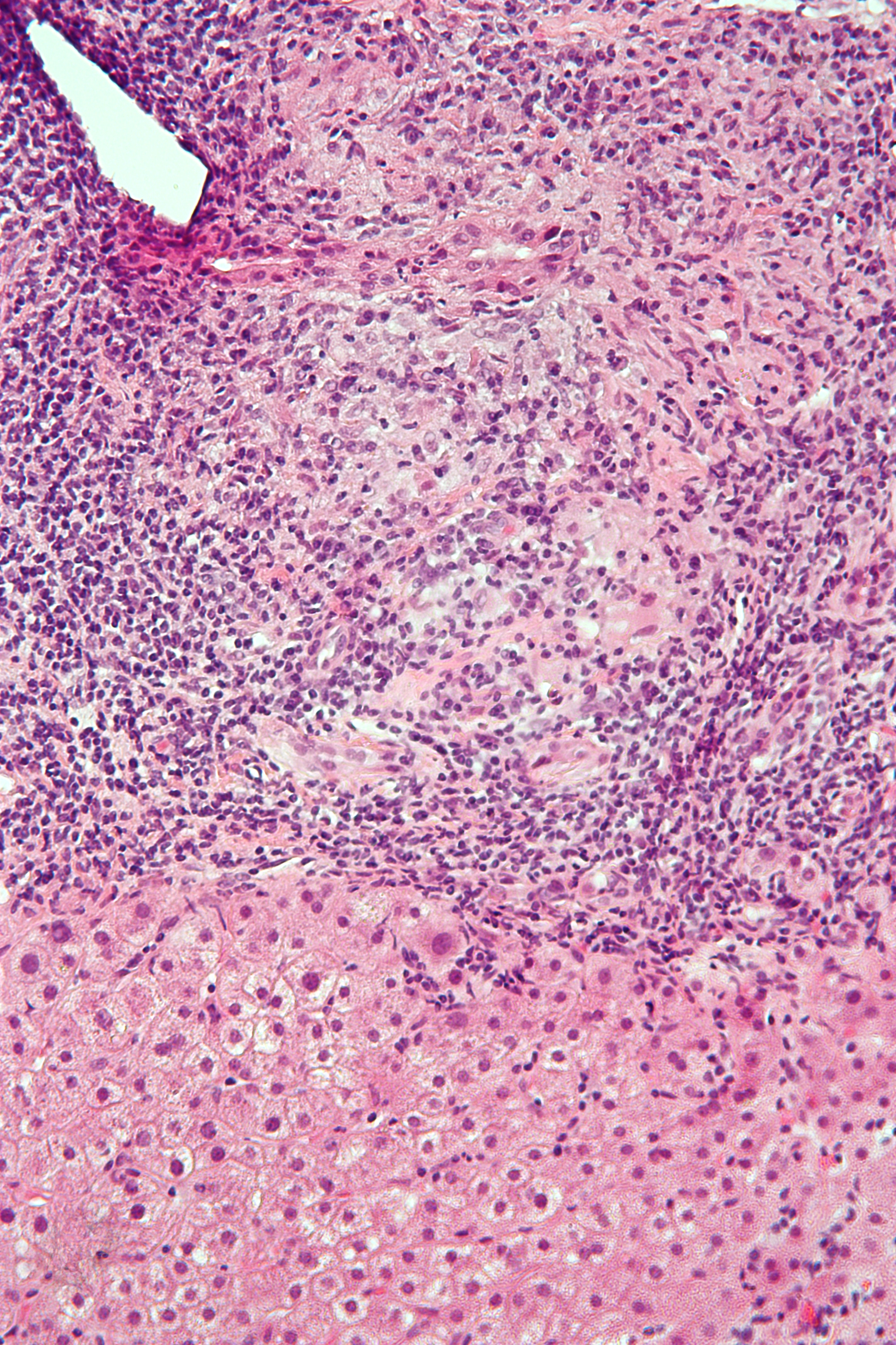 Intermediate magnification micrograph of primary biliary cirrhosis. H&E stain. Features: Bile duct intraepithelial lymphocytes - key feature. Bile duct epithelial cells with eosinophilic cytoplasm. Granulomata - close to the bile duct. Portal inflammation with mixed cell population, i.e. lymphocytes, plasma cells, eosinophils. Related images Low mag. Intermed. mag. Intermed. mag.